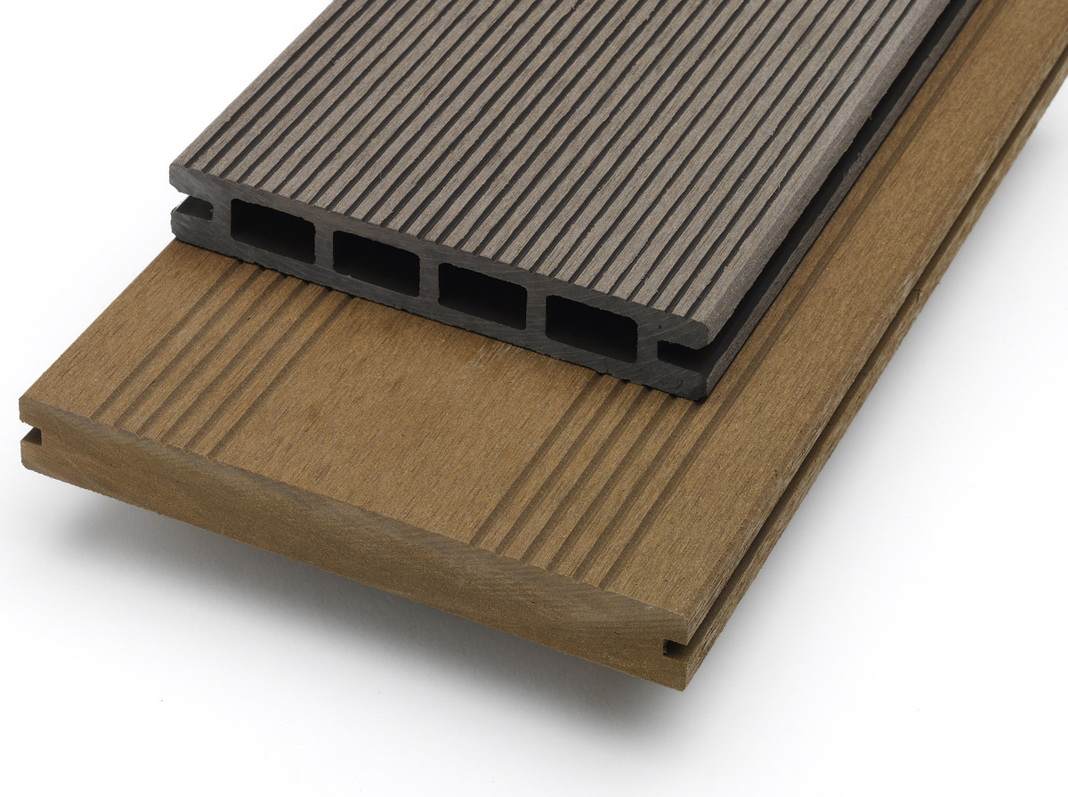 Wood plastic composite Hollow and foam technology